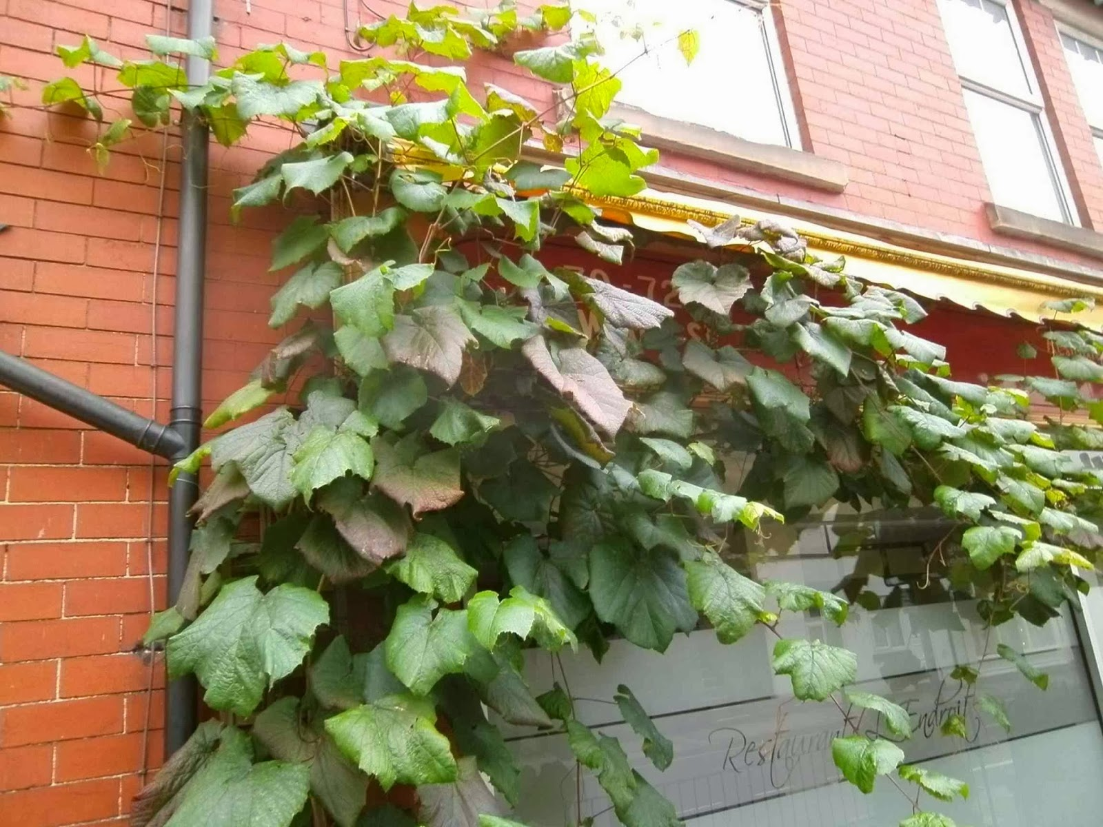 Vitis coignetiae (Japanese grape) vine.